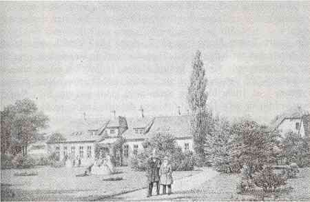 Iselingen before its tower was added, Vordingborg, Denmark